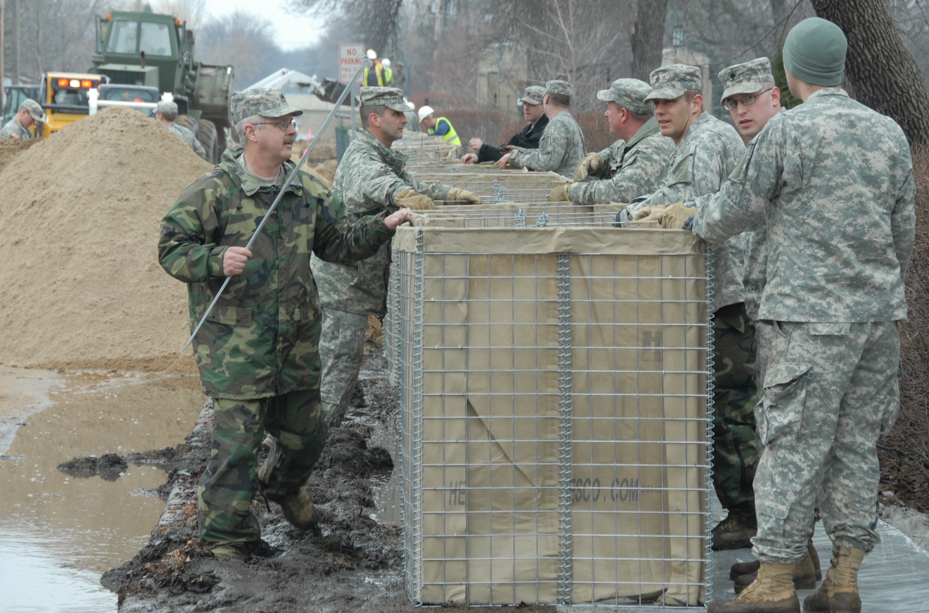 U.S. Army Sgt. 1st Class Alan Sabinash, left, and members of the 817th Engineer Company assembling sections of a HESCO collapsible barrier device in Fargo, North Dakota. Sections of the collapsible barrier were linked together and then filled with sand to create a flood barrier to block the rising waters of the Red River.